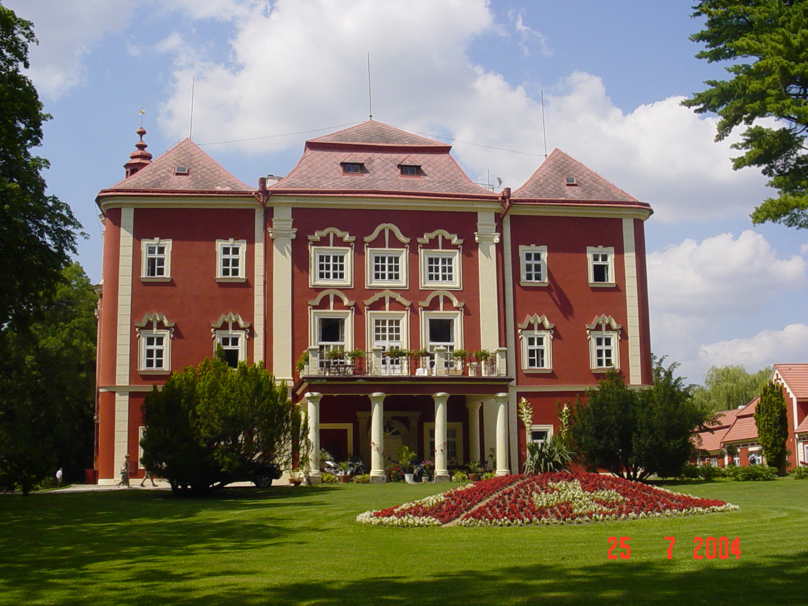 The rear side of a palace in Dětenice, Czech Republic. The original gothic fortress was rebuilt to a Renaissance chateau in 1587 and further developed in the following centuries. After a period of devastation during the Communist era, it was privatized, thoroughly rebuilt and opened for tourists in the 1990s. The flower-bed in the front reminds of Knights of Malta, who owned the palace in 1873 - 1903. [1]